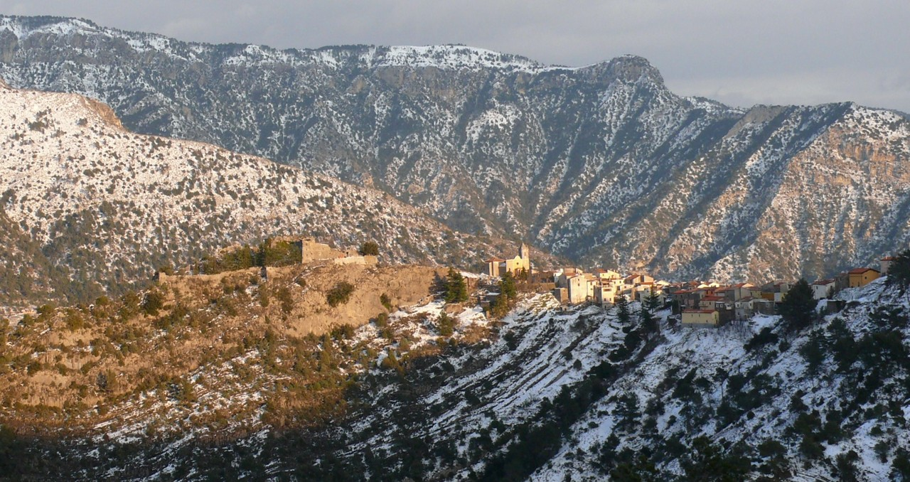 Piene Haute and its castle